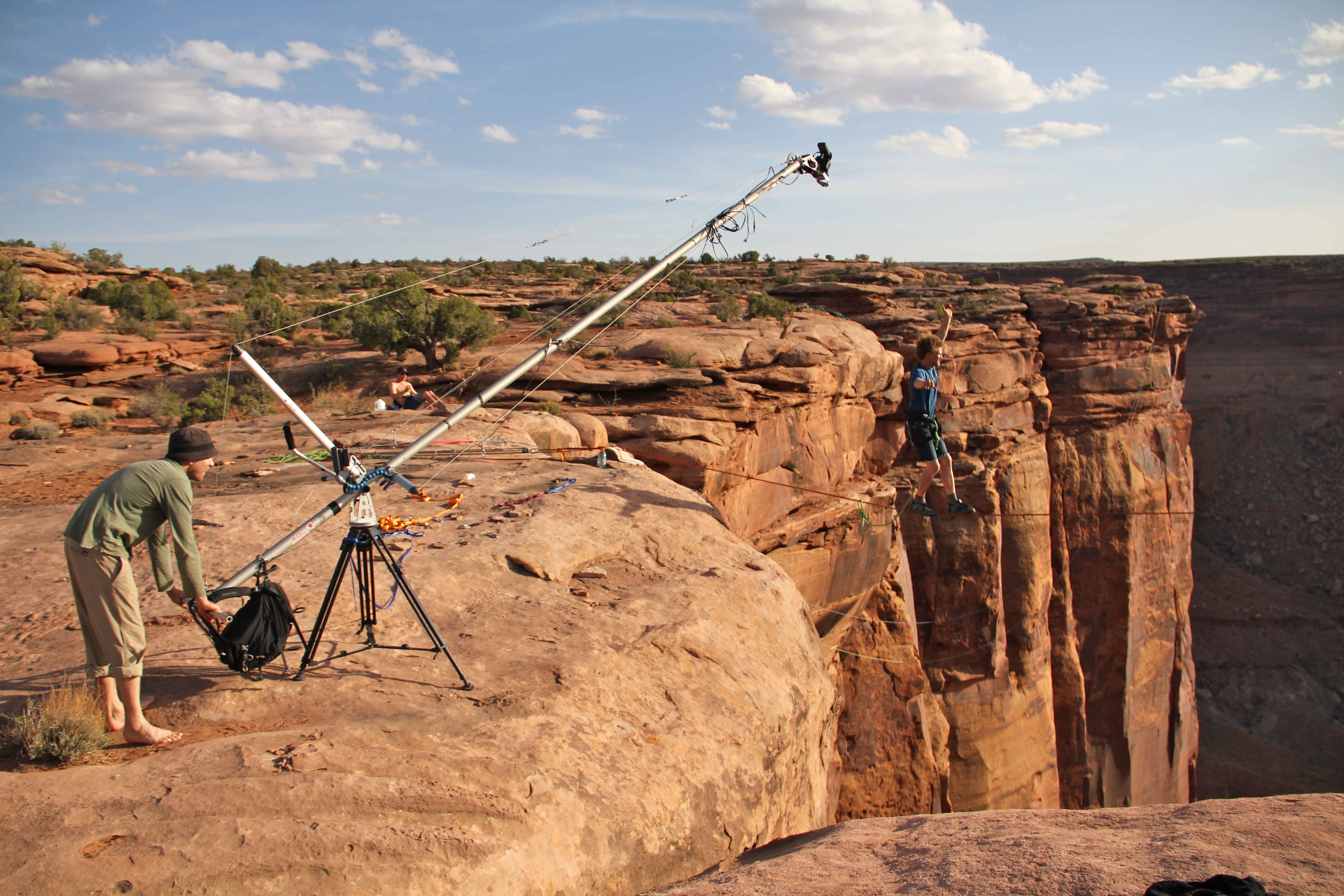 Reel Rock Film Tour on location in Moab, Utah